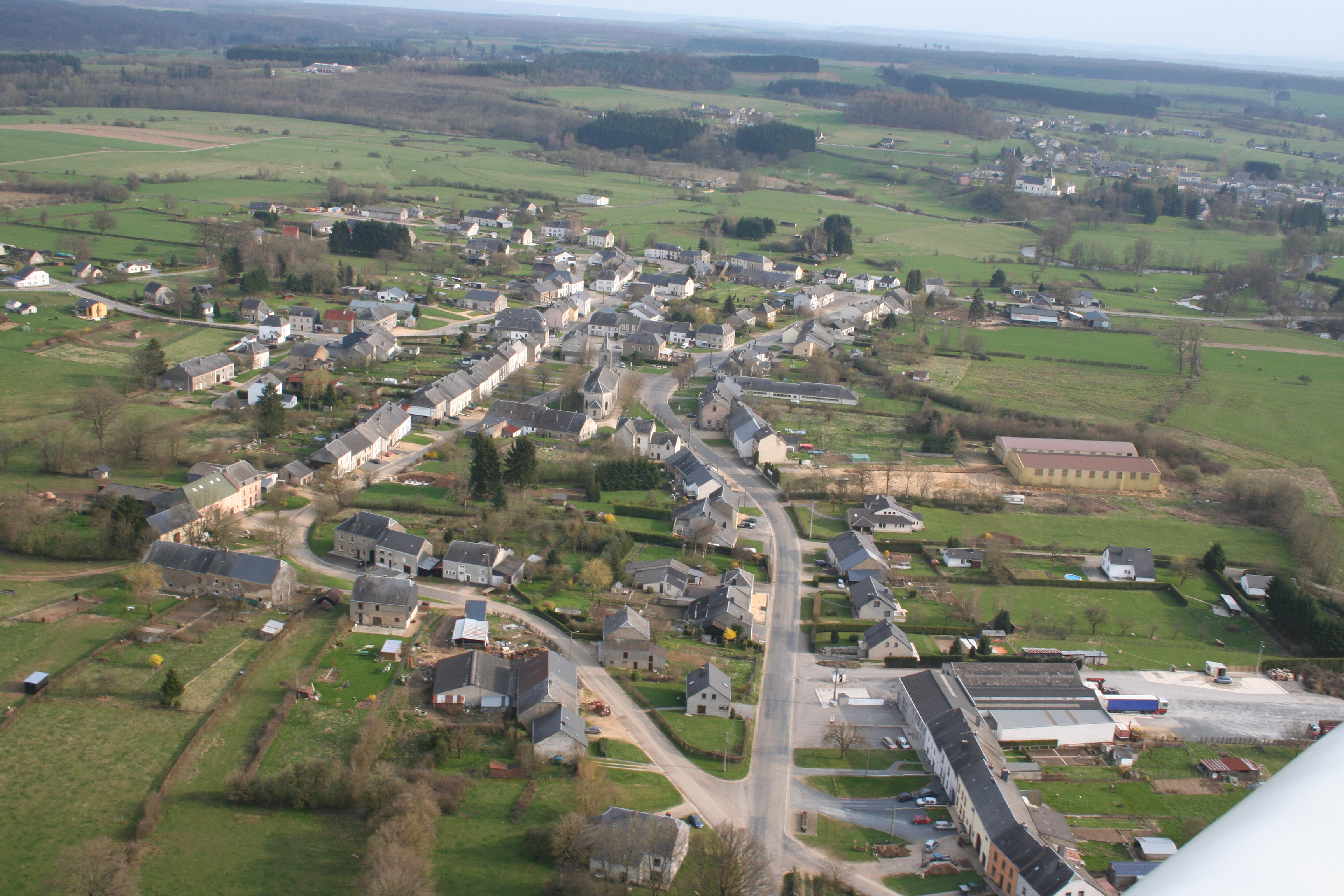 An air sight of the small village of Les Bulles in the very south of Belgium.